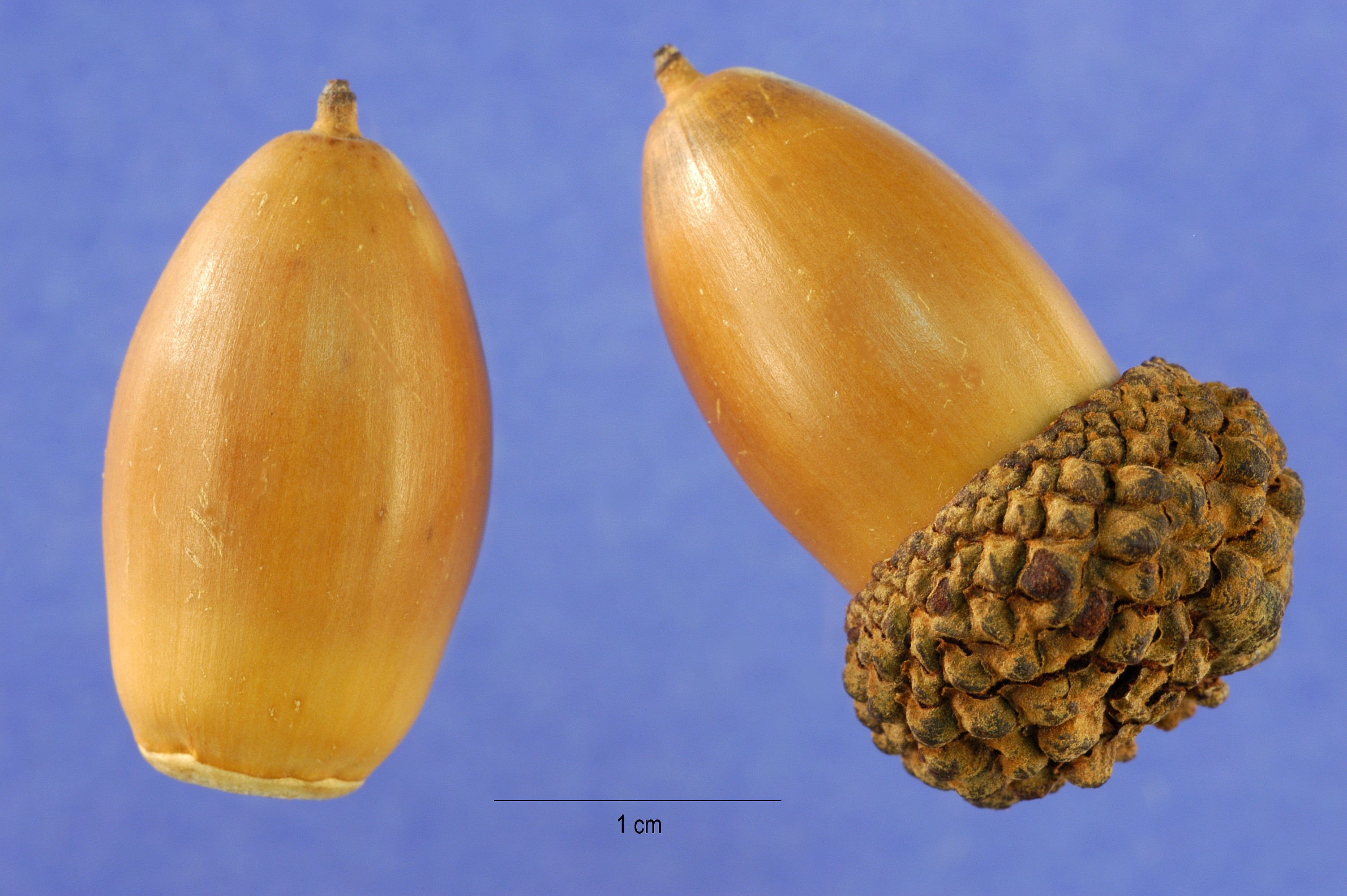 Two acorns of Quercus alba